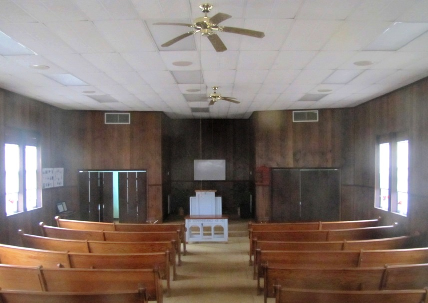 Interior of the West End Church of Christ Silver Point in Silver Point (Putnam County), Tennessee, USA. The photograph was shot through one of the church's windows, causing some haziness and splotches.